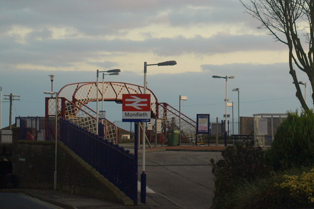 Monifieth railway station Original description: Entrance to Monifieth Railway Station